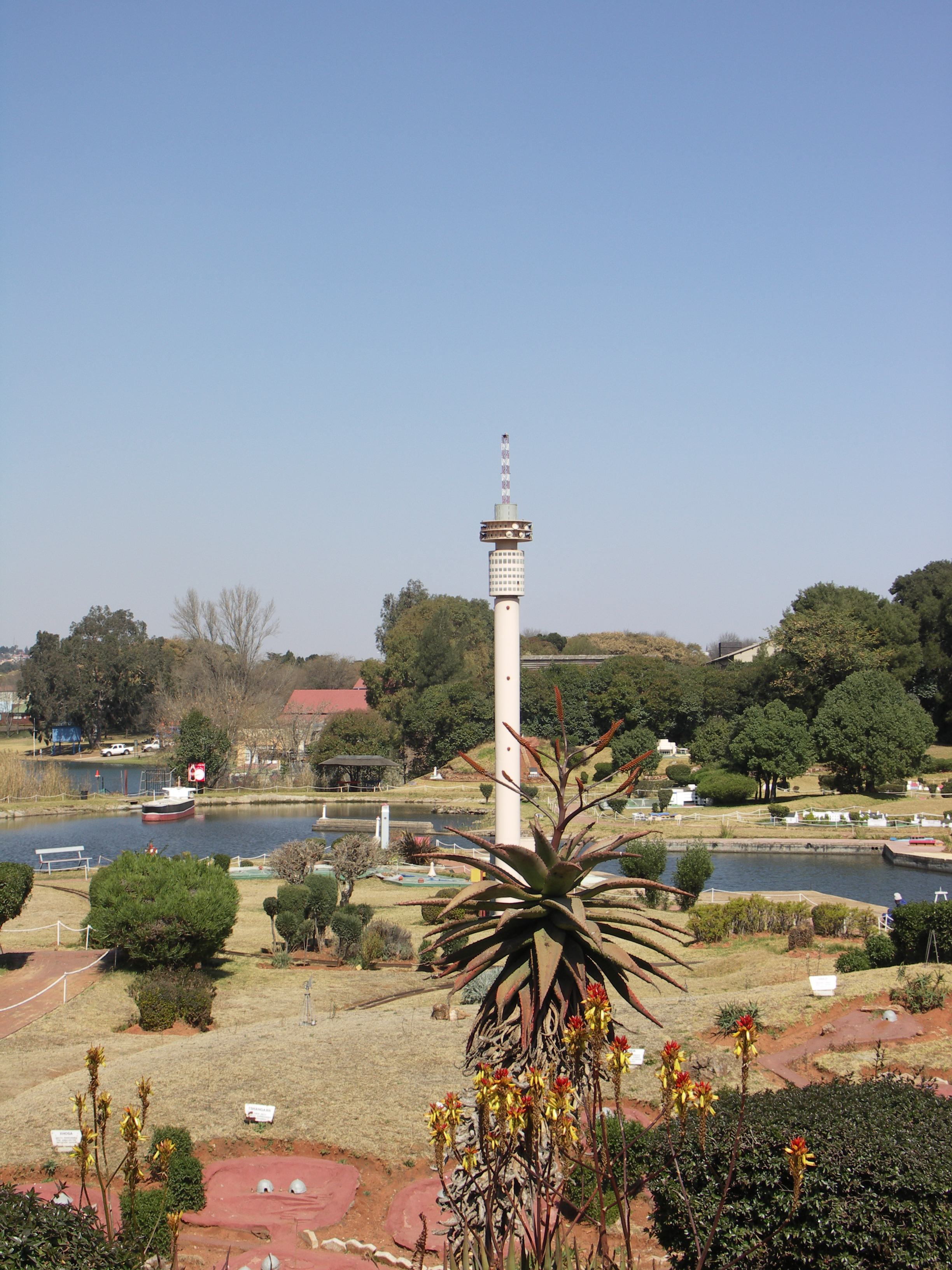 Santarama Minitown, Wemmerpan, Johannesburg, South Africa with a replica of the Hillbrow Tower